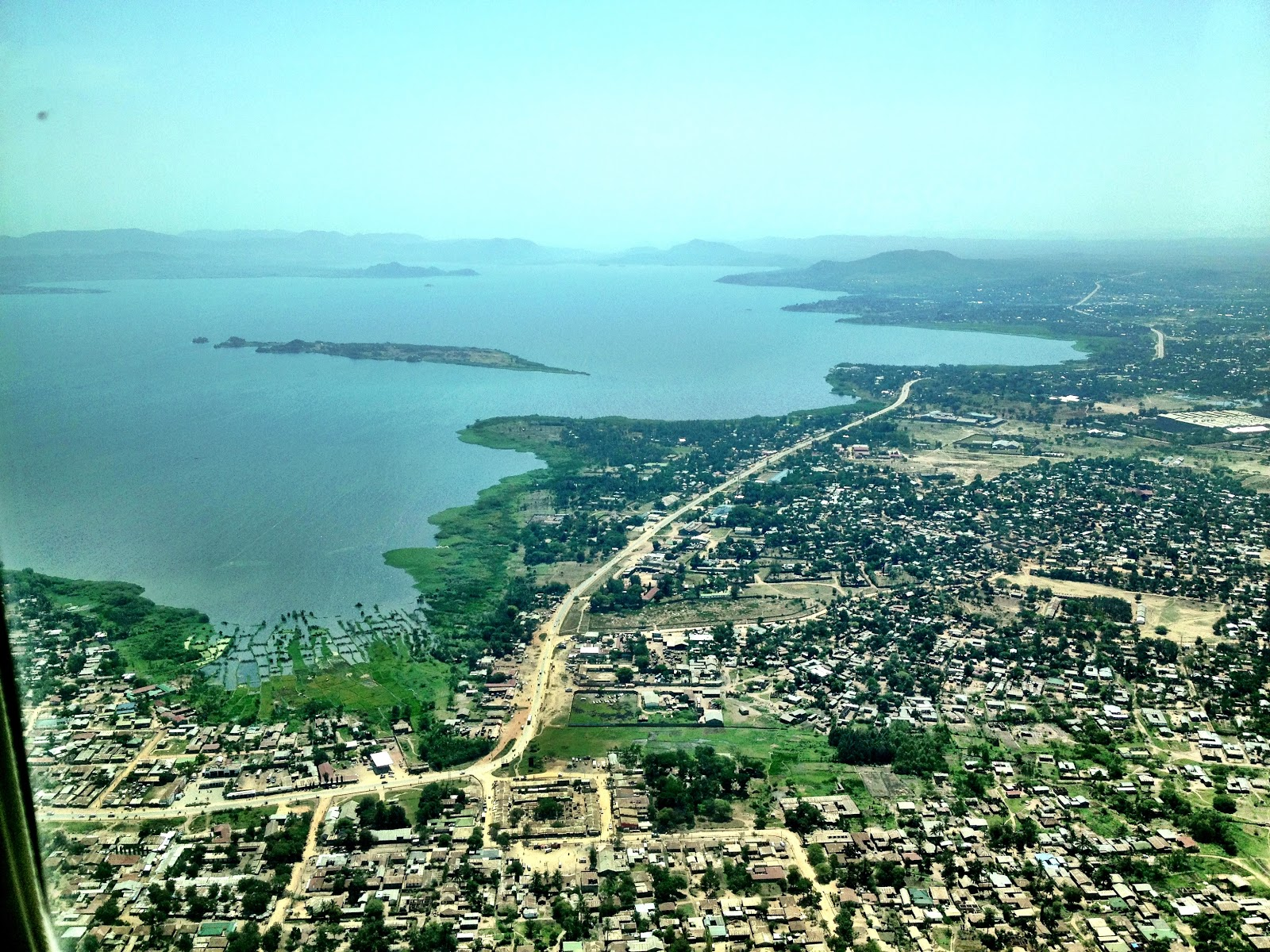 Musoma